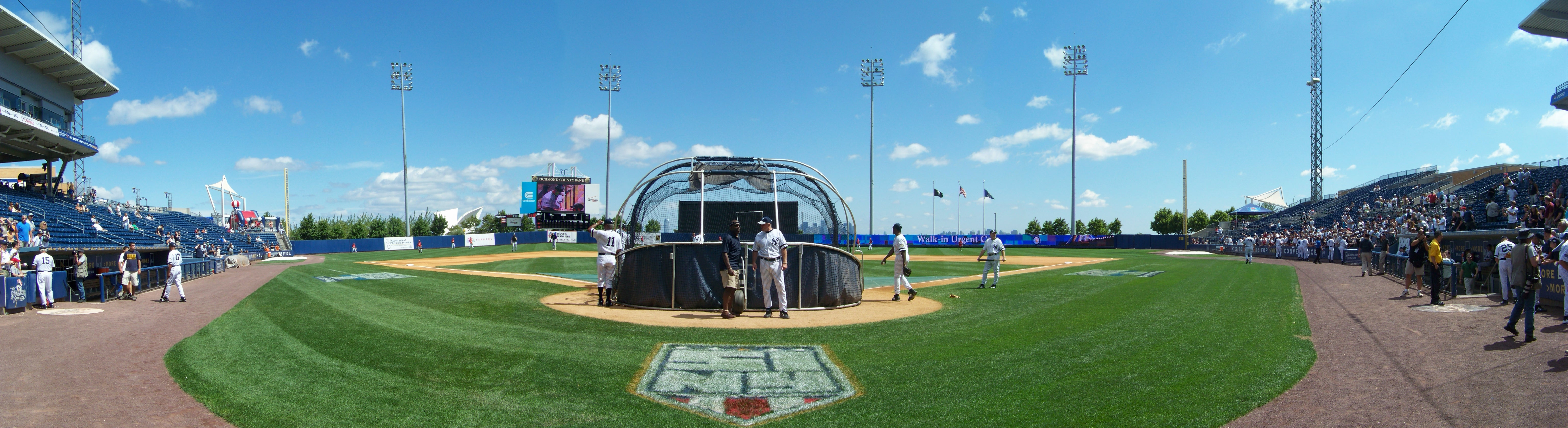 This is a panoramaic shot of the Ballpark at St. George taken during the 2008 Yankees Old-Timers Game, I own this photo.